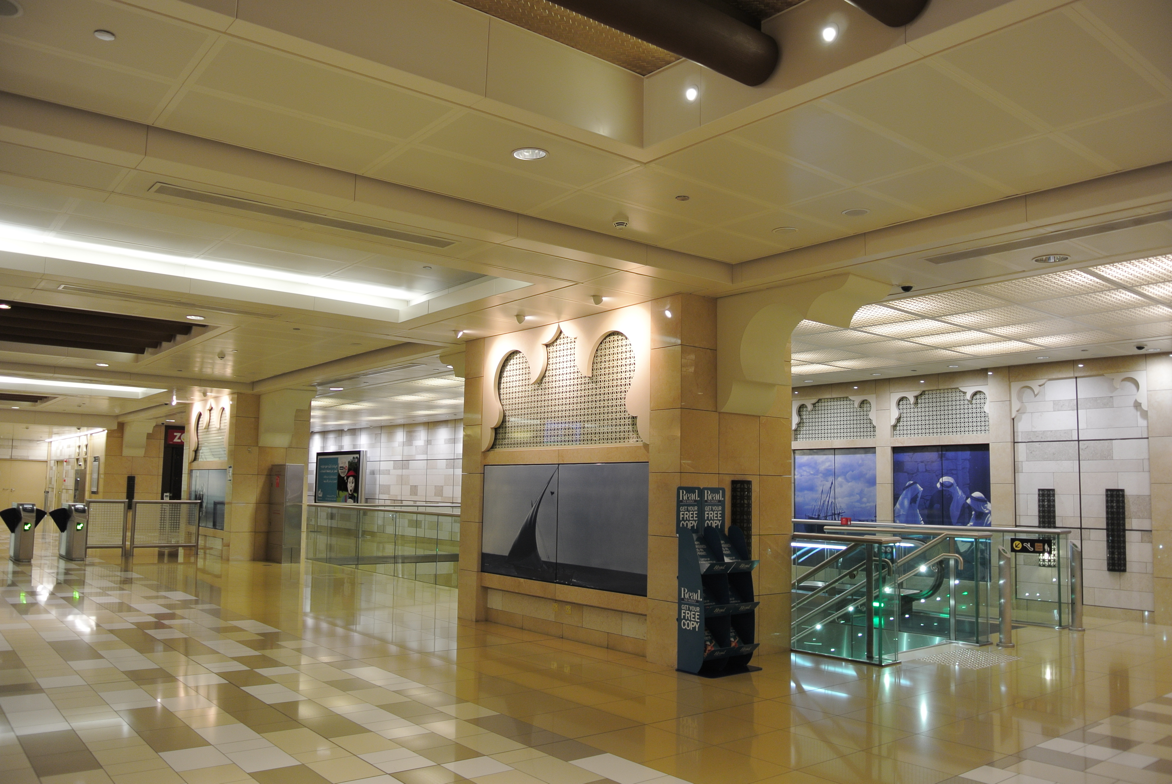 Al Ras station, Dubai Metro. Nikon 1 V1 + 1 Nikkor VR 10-30mm f/3.5-5.6